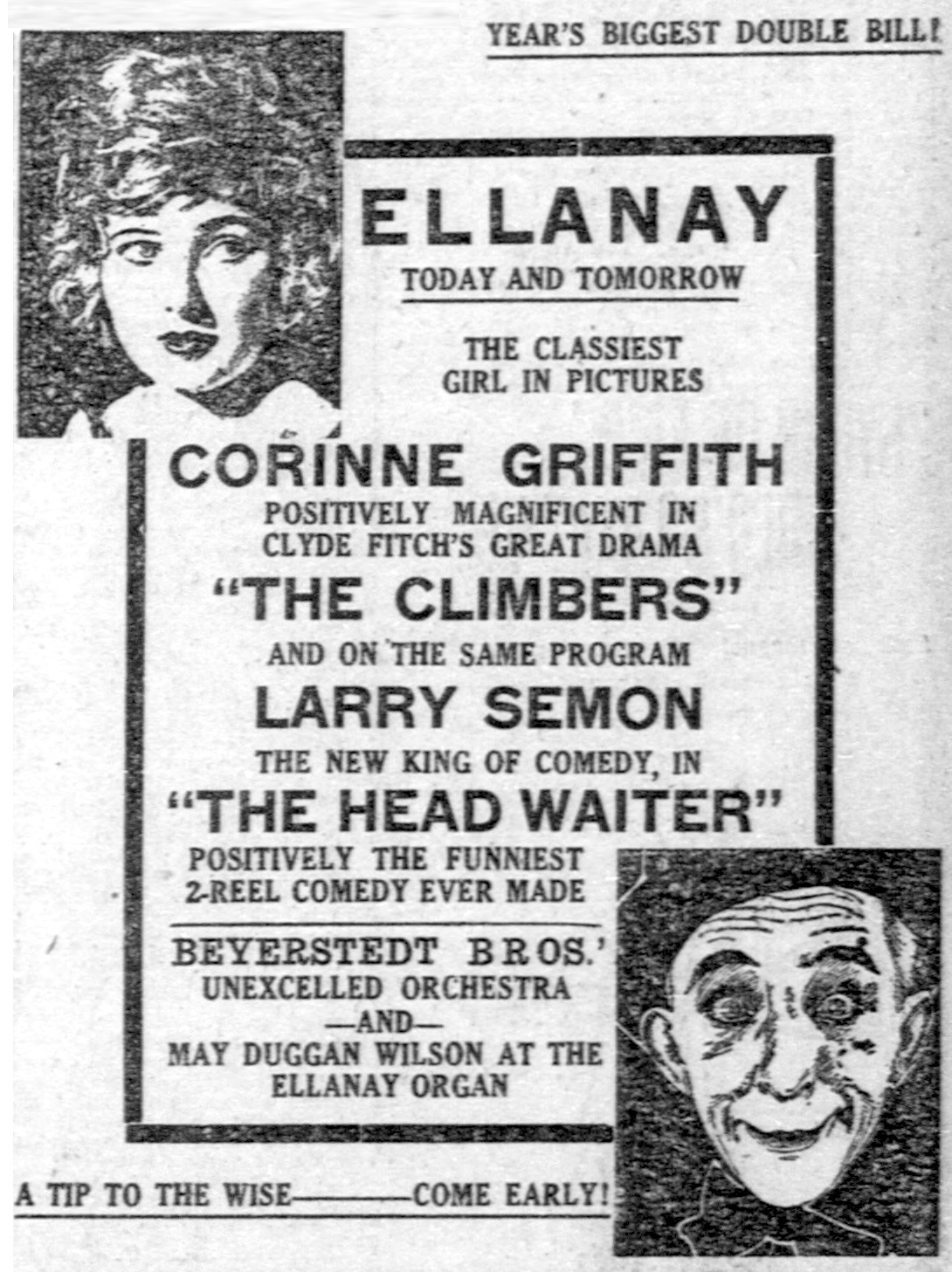 The Climbers is a lost 1919 silent film, and The Head Waiter is also a film from 1919. This is a newspaper advertisement for the two films as a double feature.